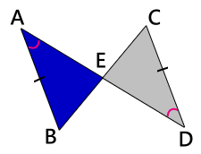 AAS